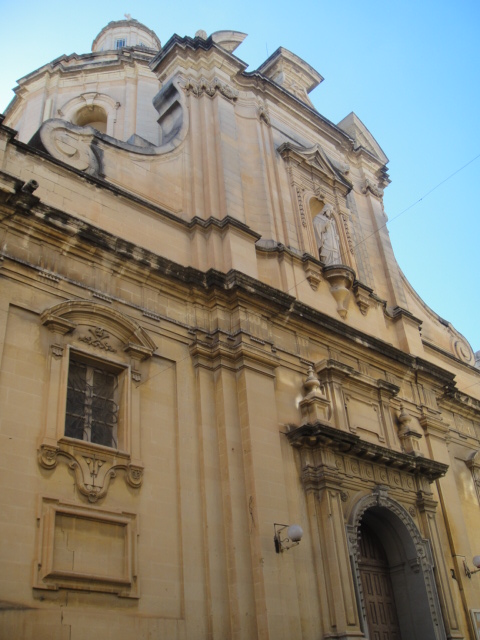 The façade of the catholic church of St Nicholas Valletta.